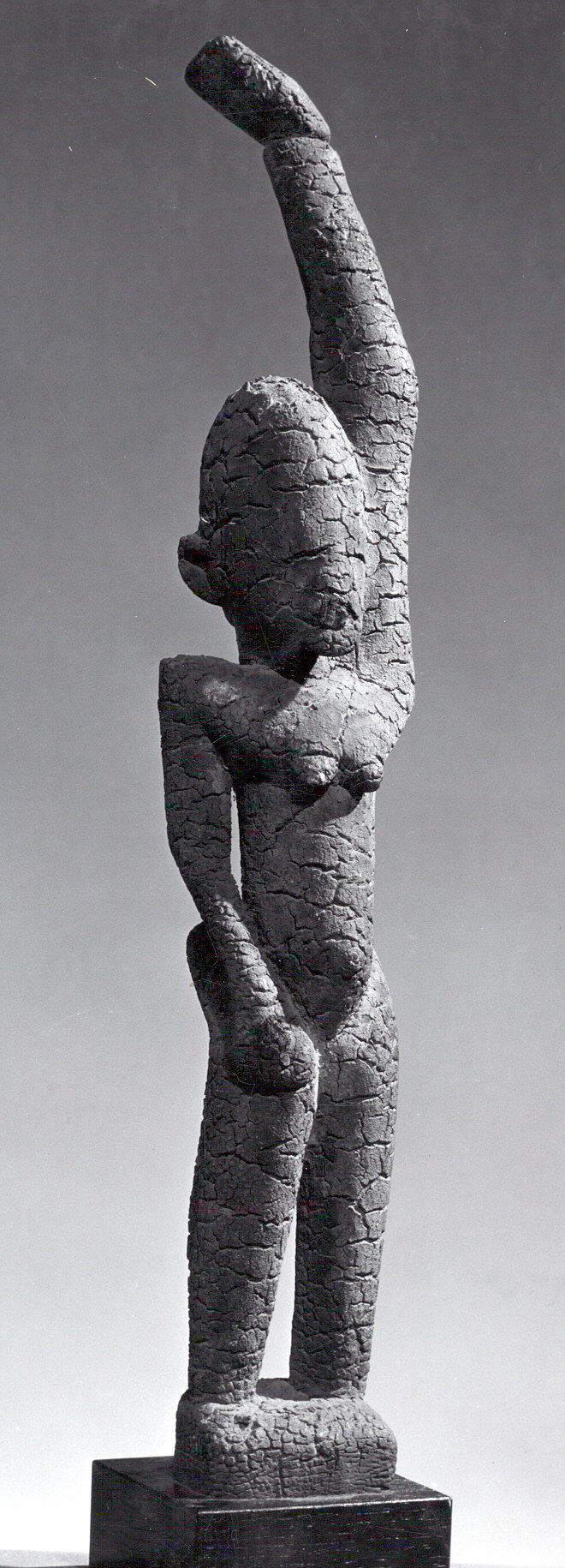 Tellem peoples (?); Figure; Wood-Sculpture